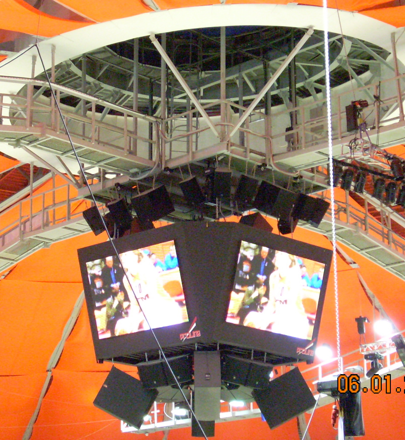 DIVS «Uralochka», Yekaterinburg